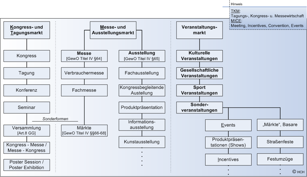 Representation of the types of events in German speaking countries (especially Germany)